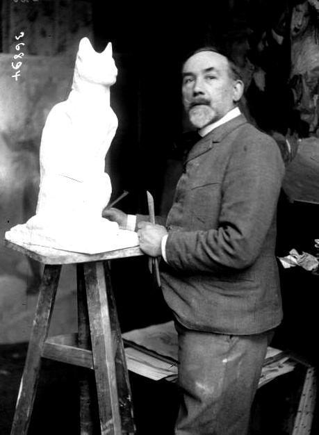 Picture of Steinlen